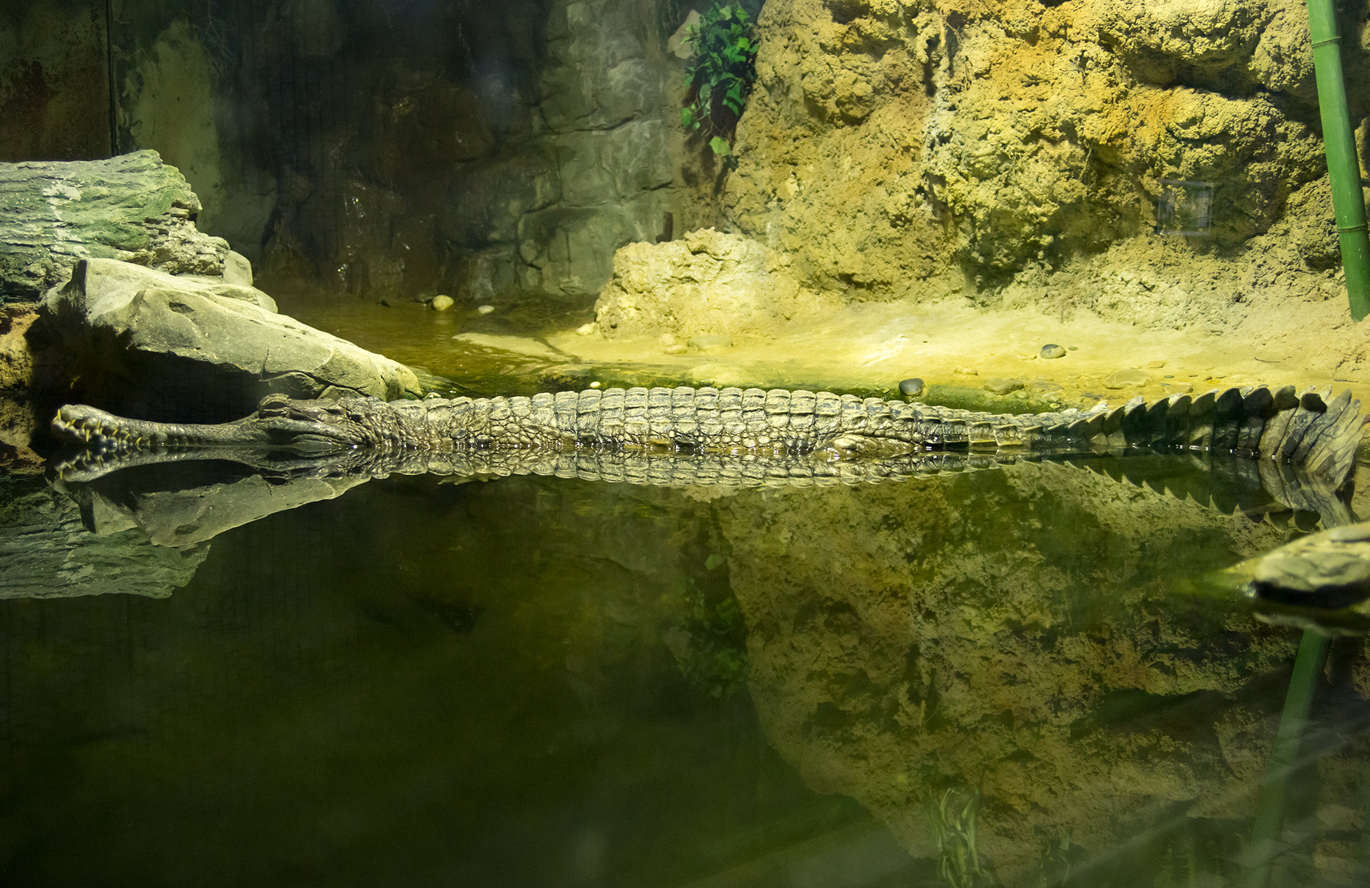 Gavialovy crocodile in the Moscow zoo.